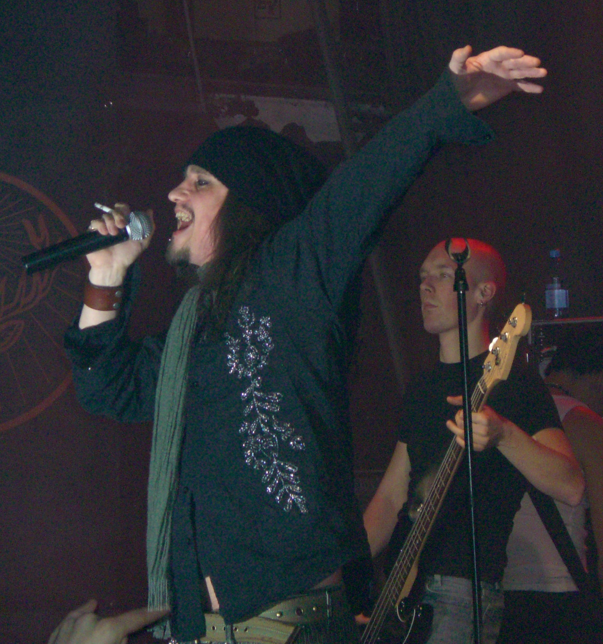 Mika Tauriainen of Entwine on stage in Tavastia club Helsinki in January 2007.